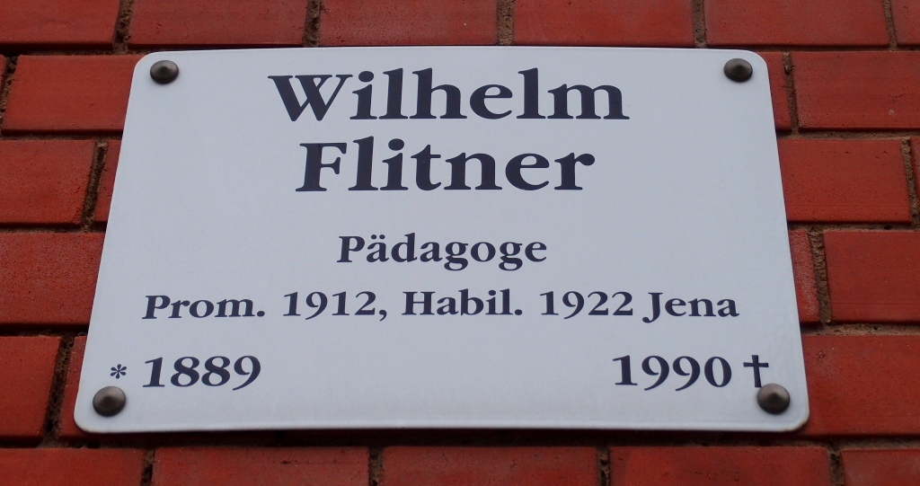 Erinnerung an den Pädagogen Wilhelm Flitner (1889-1990), Jena, Carl-Zeiss-Platz